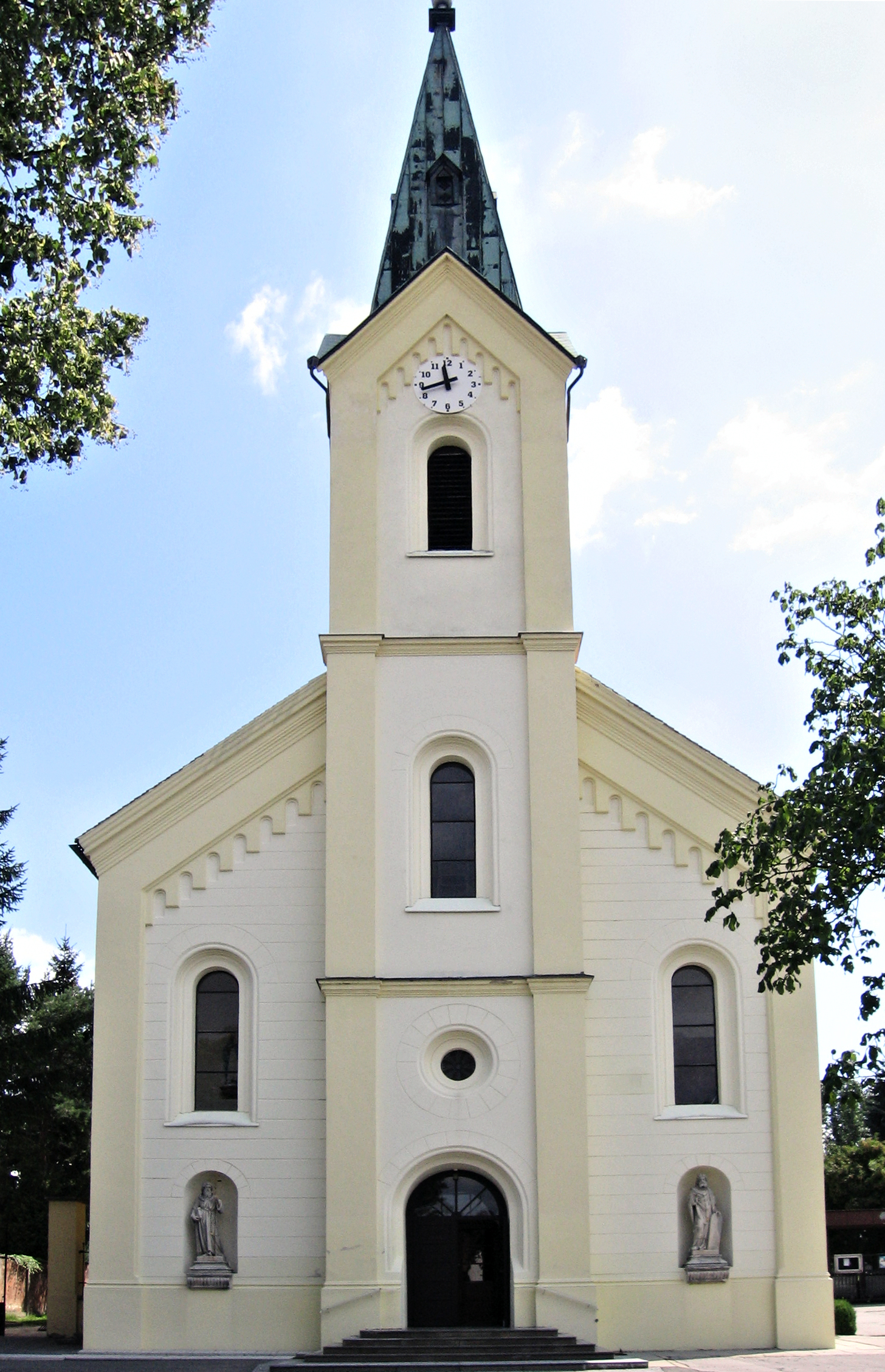 Saint Joseph church in Dubňany, Hodonín District, Czech Republic